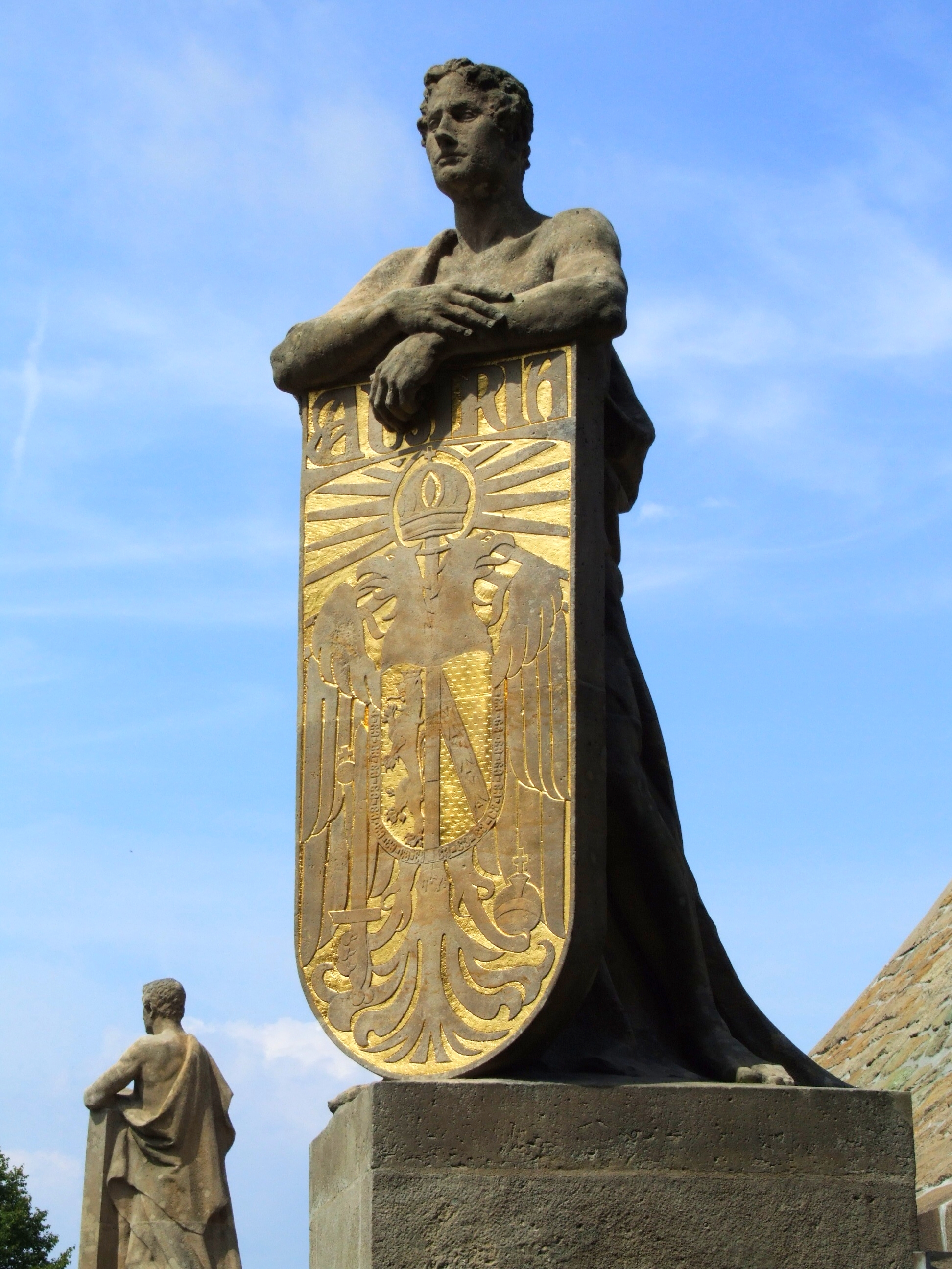 Peace Memorial in Prace. Sculpture "Austria", author: Josef Fanta, 1910-1912